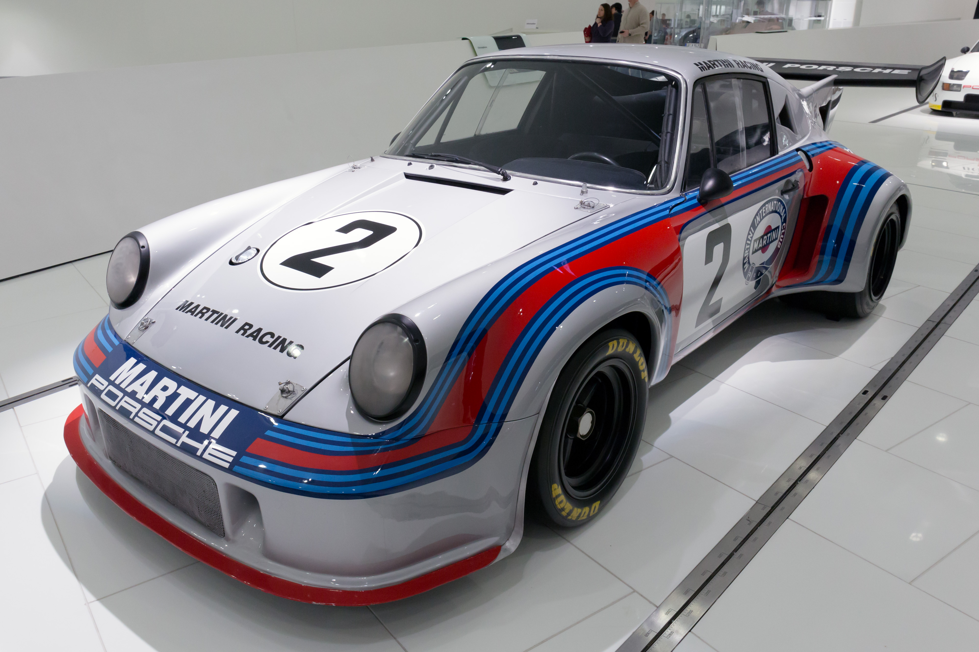 1974 Porsche Carrera RSR Turbo 2.1